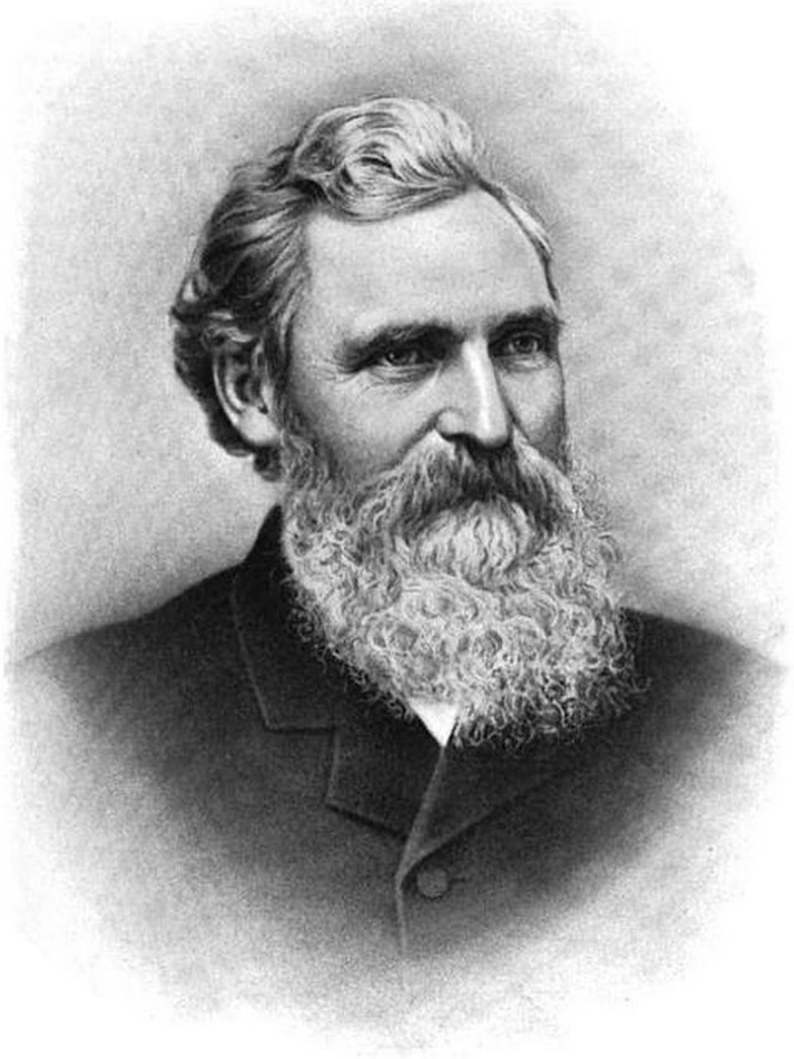 Portrait drawing of California Supreme Court justice Charles Nelson Fox.